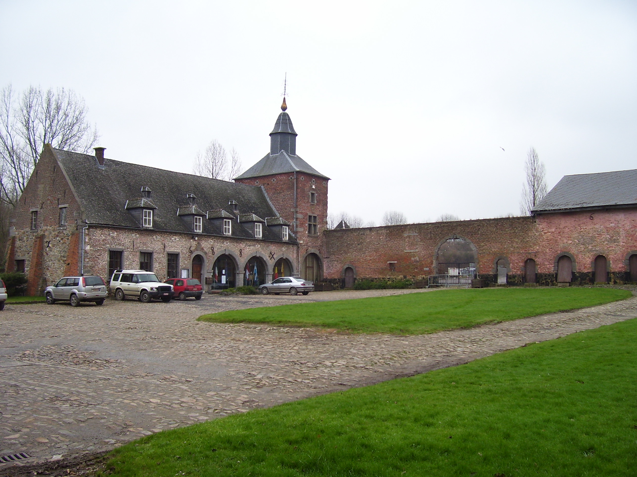 Maison Communale (municipality) of Chastre, Belgium